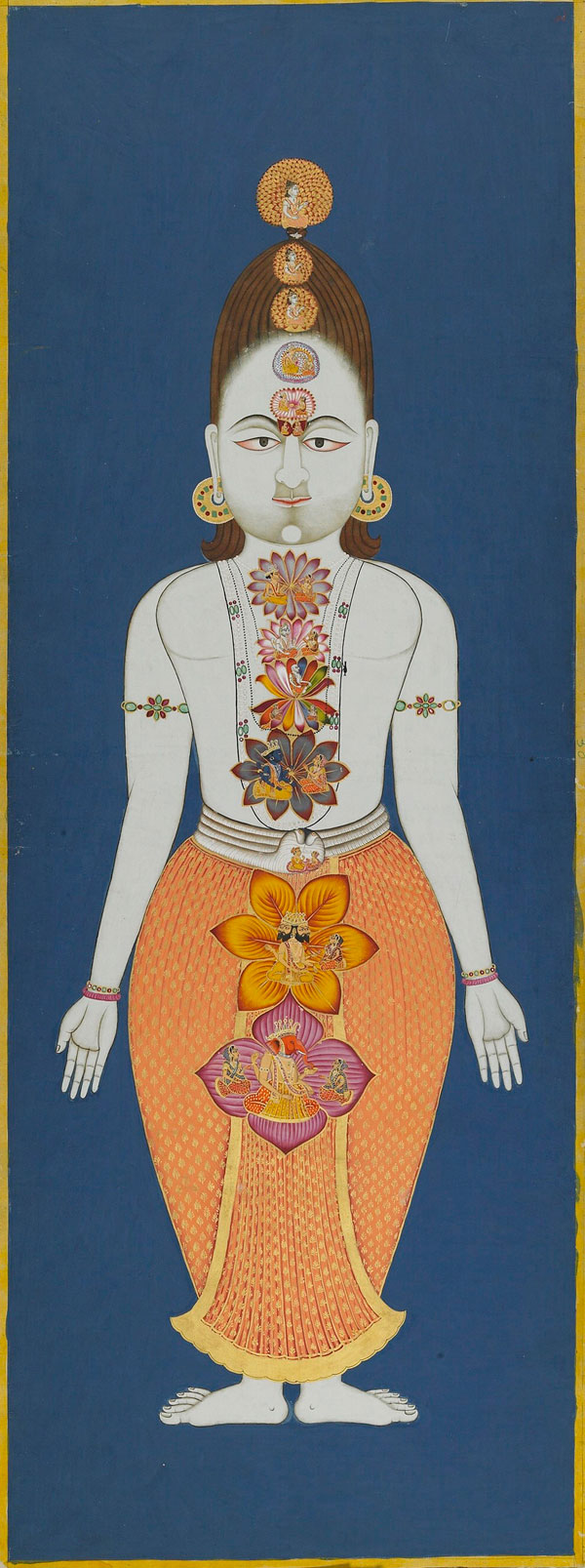 Chakras of the Subtle Body (detail), folio 2 from the Nath Charit. Attributed to Bulaki, 1823 (Samvat 1880); 46 x 122 cm. Mehrangarh Museum Trust.